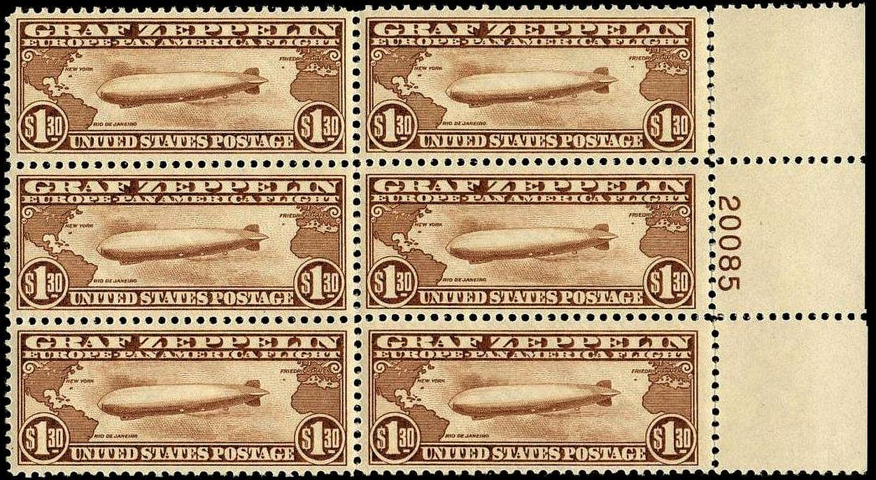 Image of 1930 Graf Zeppelin stamps, plate block of six